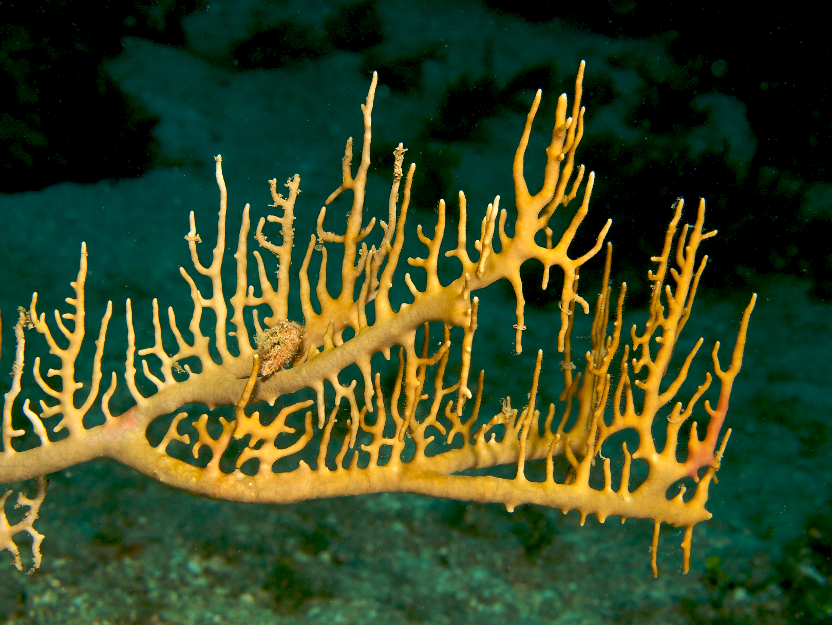 Millepora sp. (Encrusting Fire Coral)